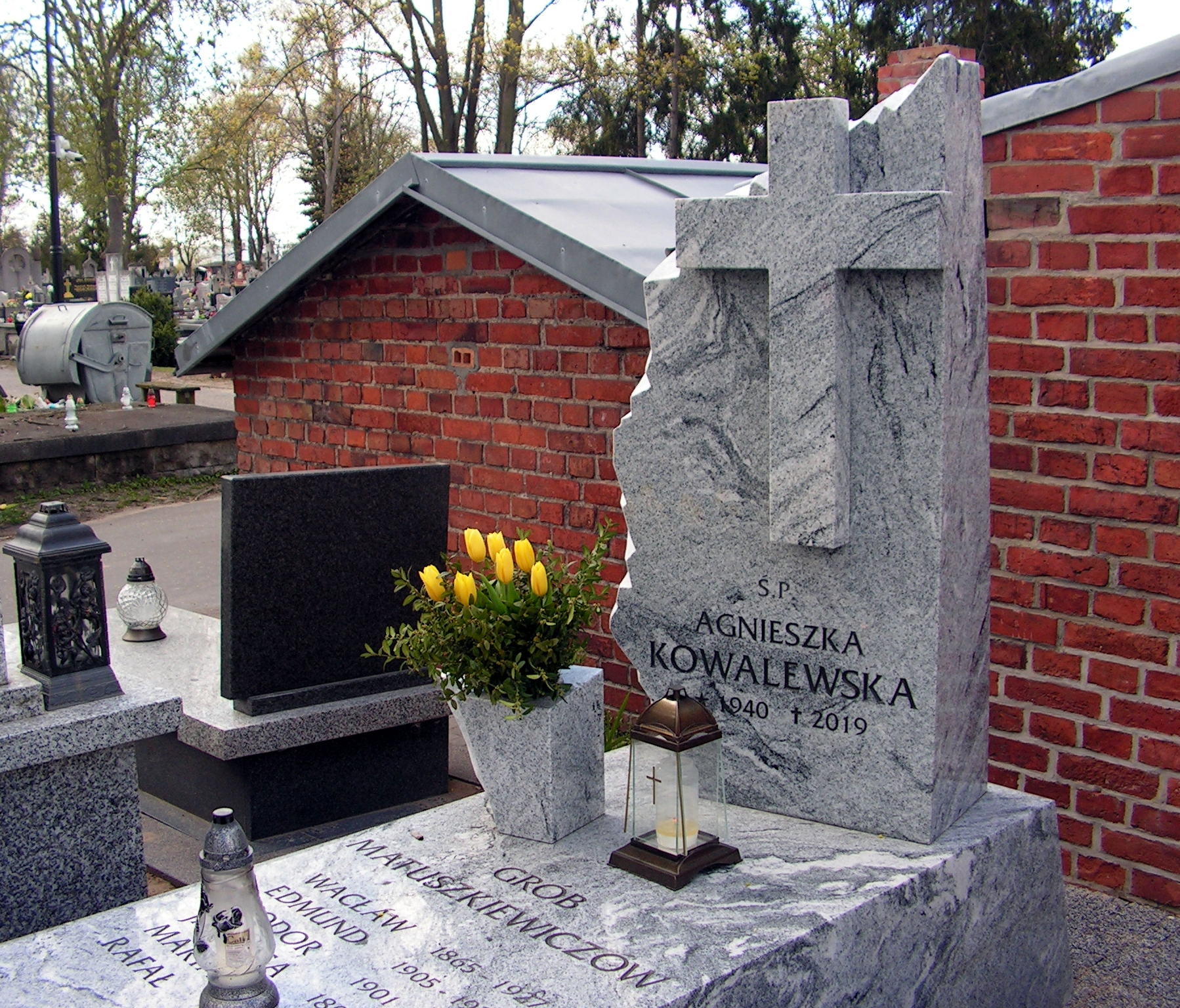 Grave of Agnieszka Kowalewska (1940-2019), former directorf of Museum of Kuyavian and Dobrzyń Region in Włocławek, on the local Communal Cemetery. She've been buried in grave of Matuszkiewicz family: Wacław (1865-1927); Rafał (1899-1900); Teodor (1901-1943); Jadwiga (1902-1912); Edmund (1905-1925) and Marta (1979-1981). Current grave, built on the turn of 2019 and 2020 year, refers to former, monumental grave, which was flat plate.